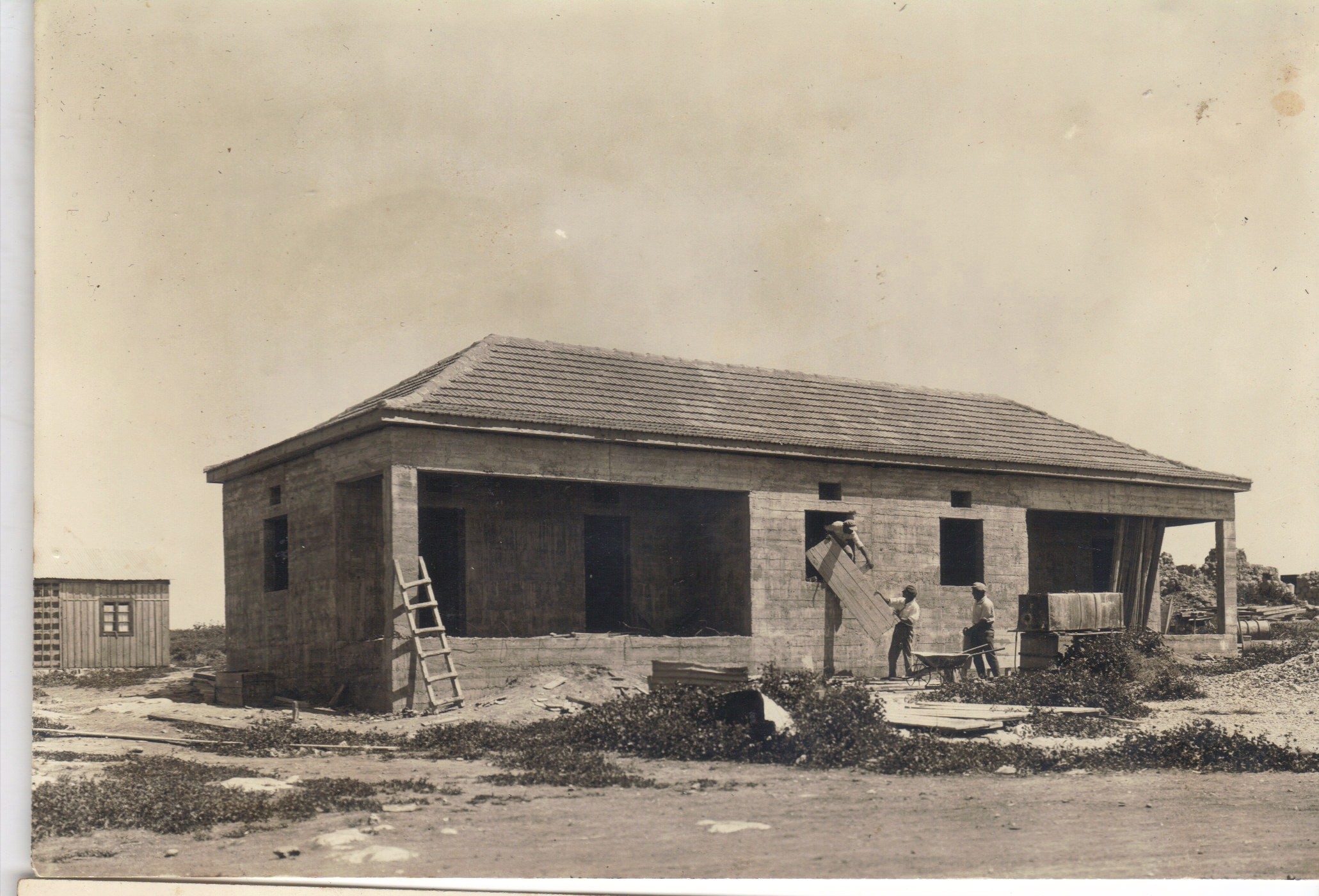 The first house in Kibbutz Sarid in the Jezreel Valley